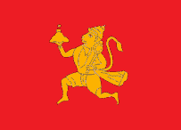 Flag of Dewas Senior State Based on: Dewas Junior